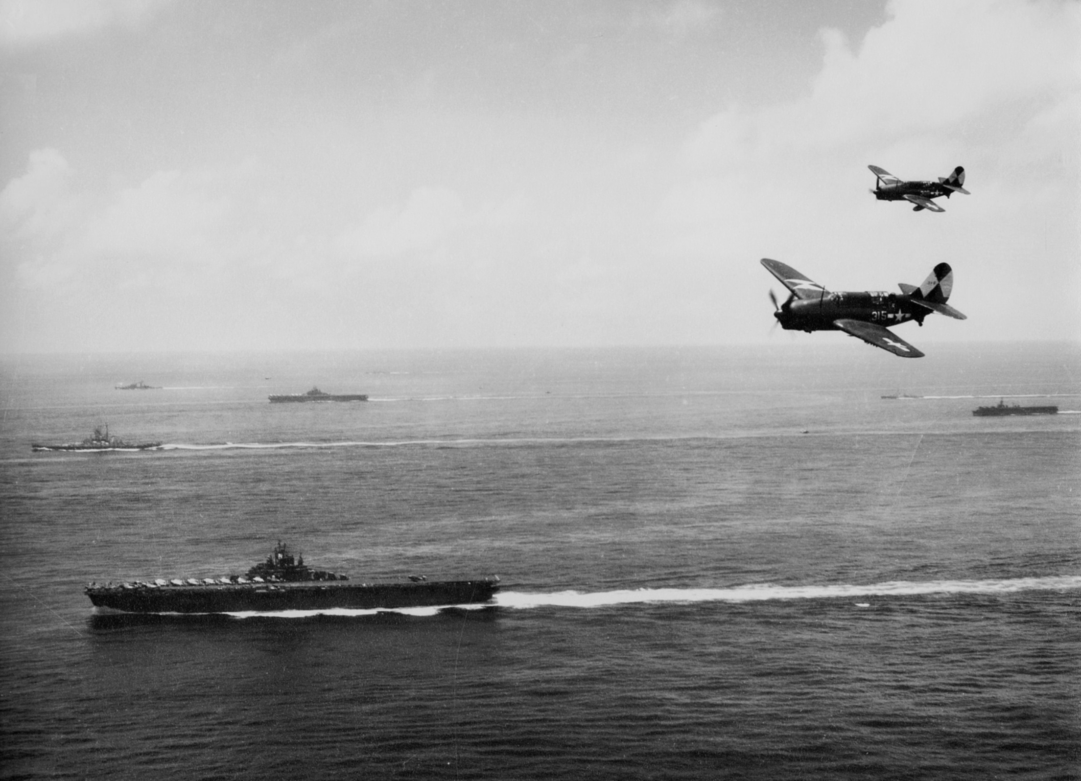 Two U.S. Navy Curtiss SB2C-4 Helldiver dive bombers of Bombing Squadron 83 (VB-83) fly against the backdrop of ships of Task Group 38.3 operating off Okinawa. VB-83 operated from USS Essex (CV-9), pictured in foreground, during the period March-September 1945. Note the geometric identification symbols ("G-symbols") of the aircraft from the Essex. In the background are the battleship USS Washington (BB-56), a long-hull Essex-class carrier and an Independence-class light carrier.